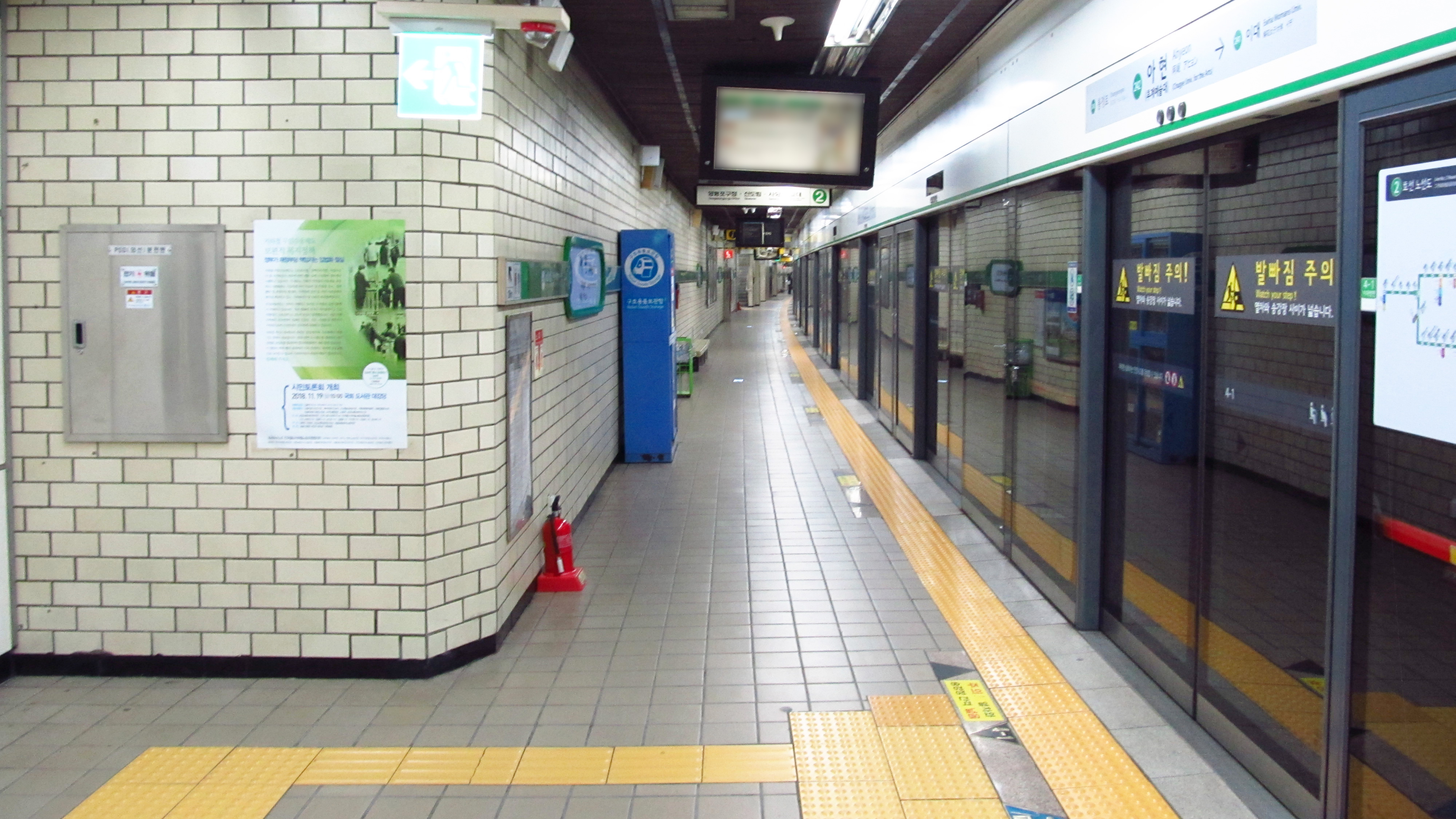 The platform at Ahyeon Station on Seoul Subway Line 2 in Mapo-gu, Seoul, Republic of Korea(South Korea)